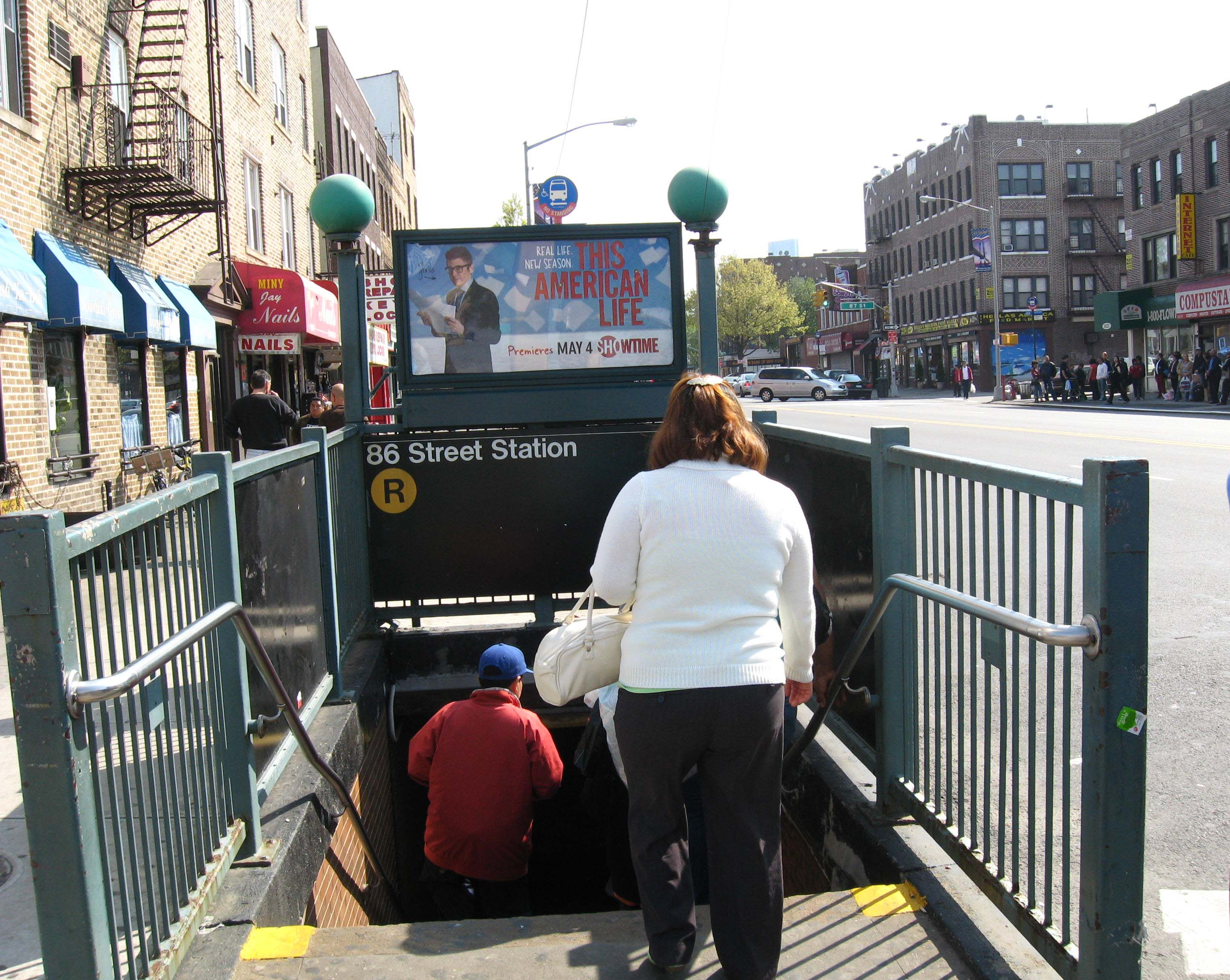 Looking south on the east side of Fourth Avenue at en:86th Street (BMT Fourth Avenue Line station) R train terminus stair in Bay Ridge, Brooklyn on a sunny spring afternoon.